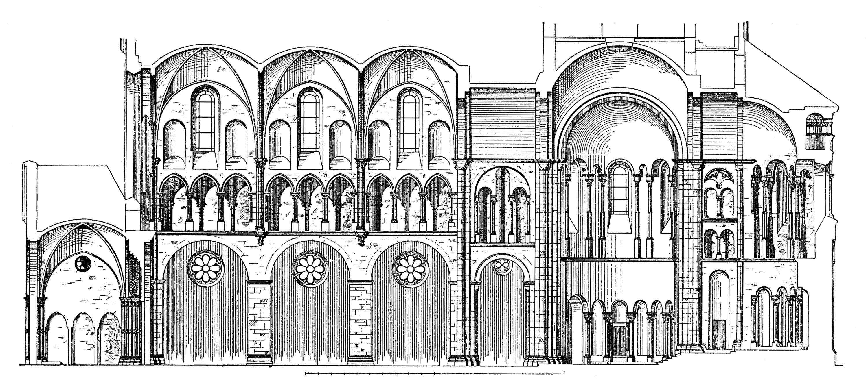 Longitudinal section of Groß St. Martin, Cologne